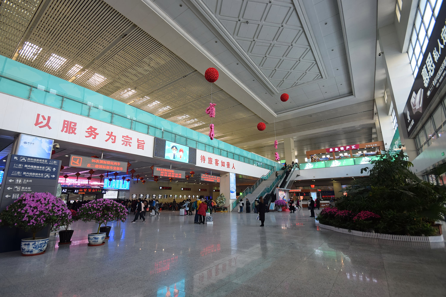 Internal Train Waiting Area at First Floor of Dandong Railway Station